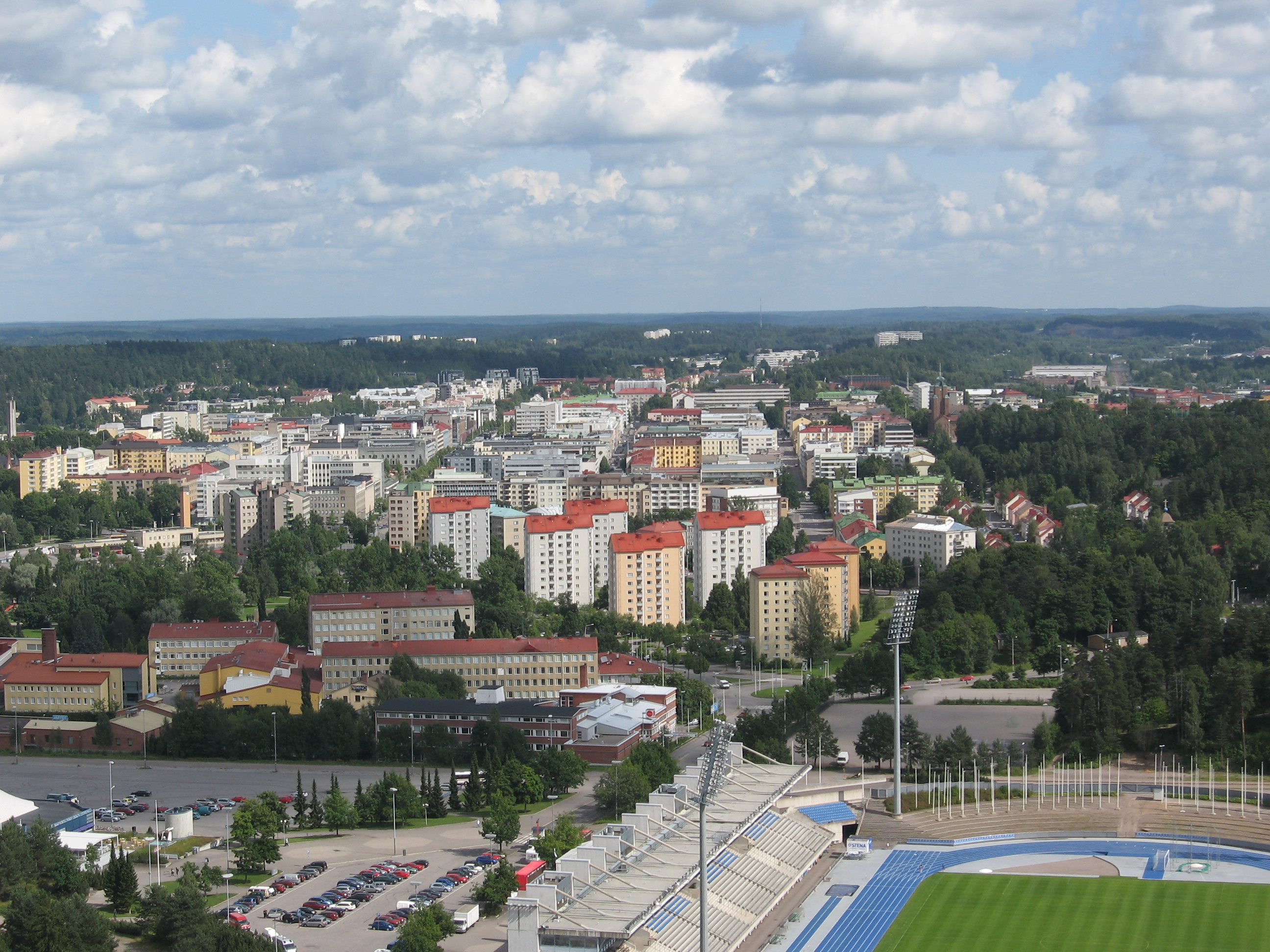 Looking down to centre of Lahti from the top of the ski jump tower